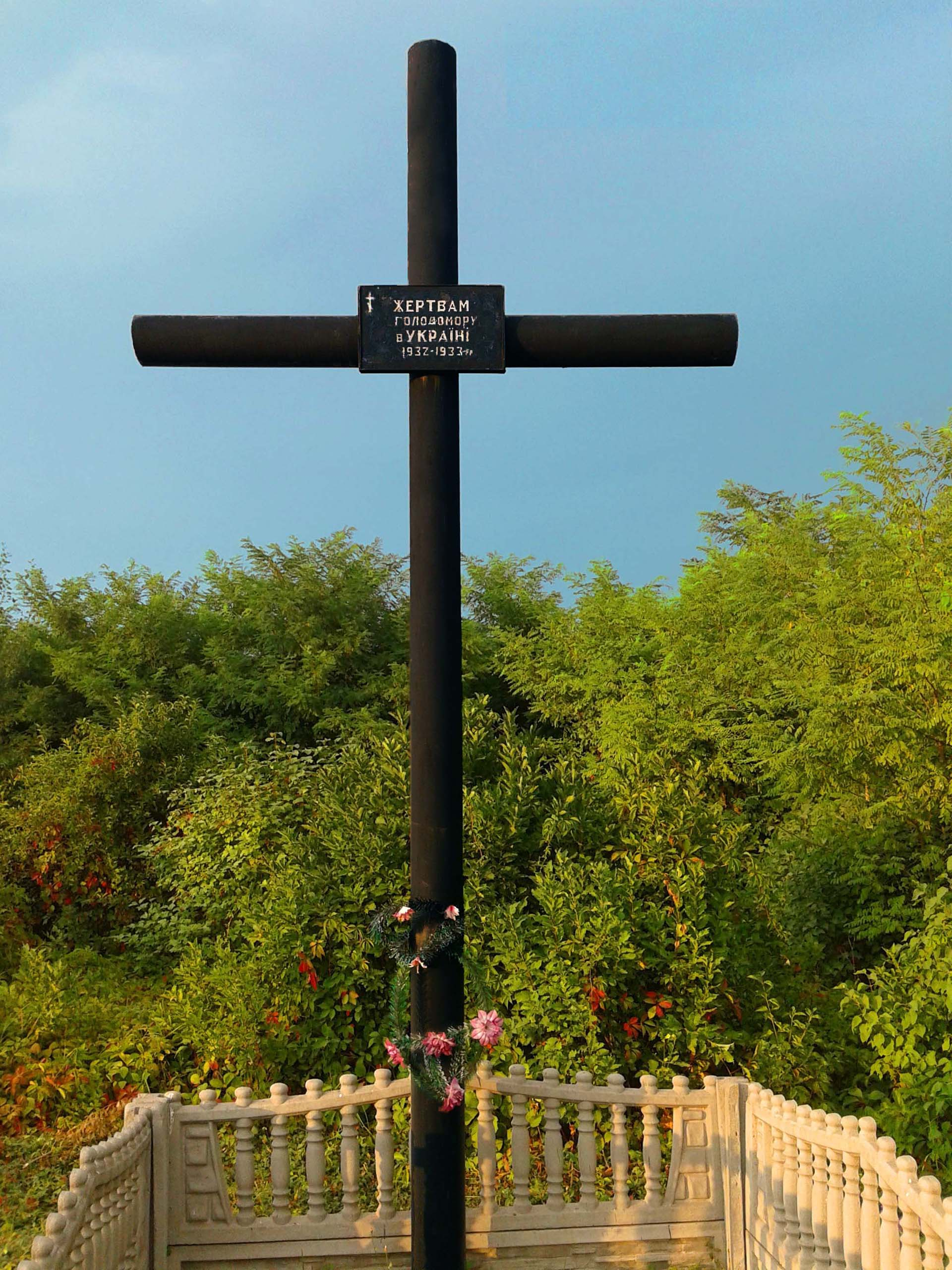 Monument to victims of Holodomor in Dolotetske Vinnytsia oblast, Ukraine